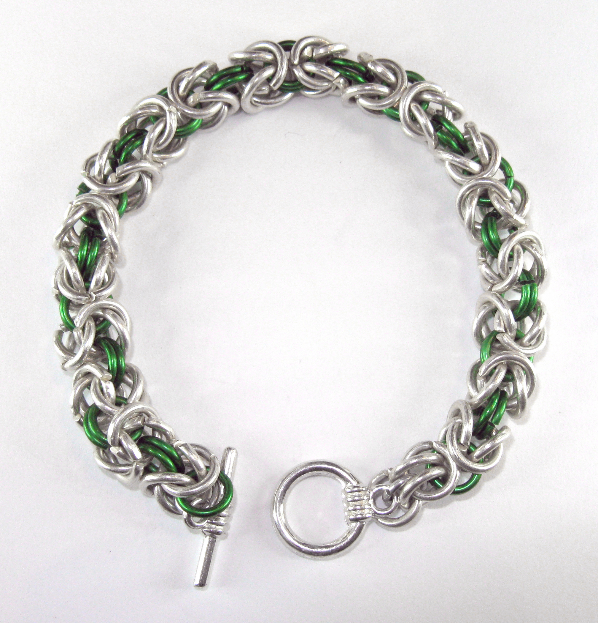 Bracelet in Byzantine chain mail weave. Made by me, using silver-plated copper jump rings and green anodised aluminium jump rings.